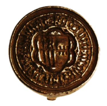 afbeelding2 Raessens